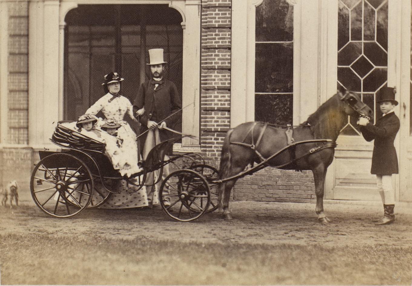 King Leopold II of Belgium with his wife Queen Marie Henriette and their two older children (Princess Louise and Prince Leopold)